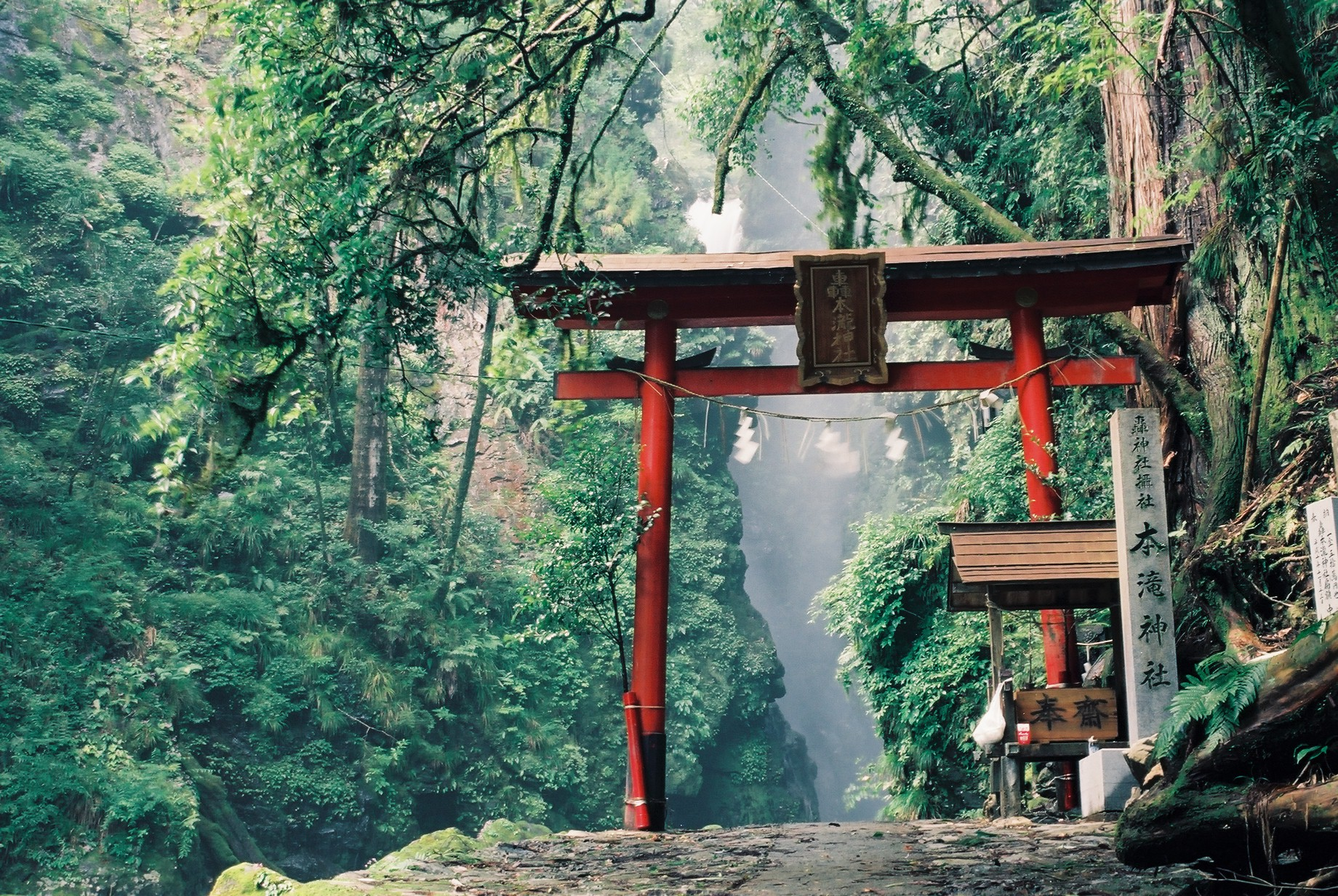 Hontaki is a main falls of Todoroki ninetynine waterfalls in Kainan, Tokushima, Japan